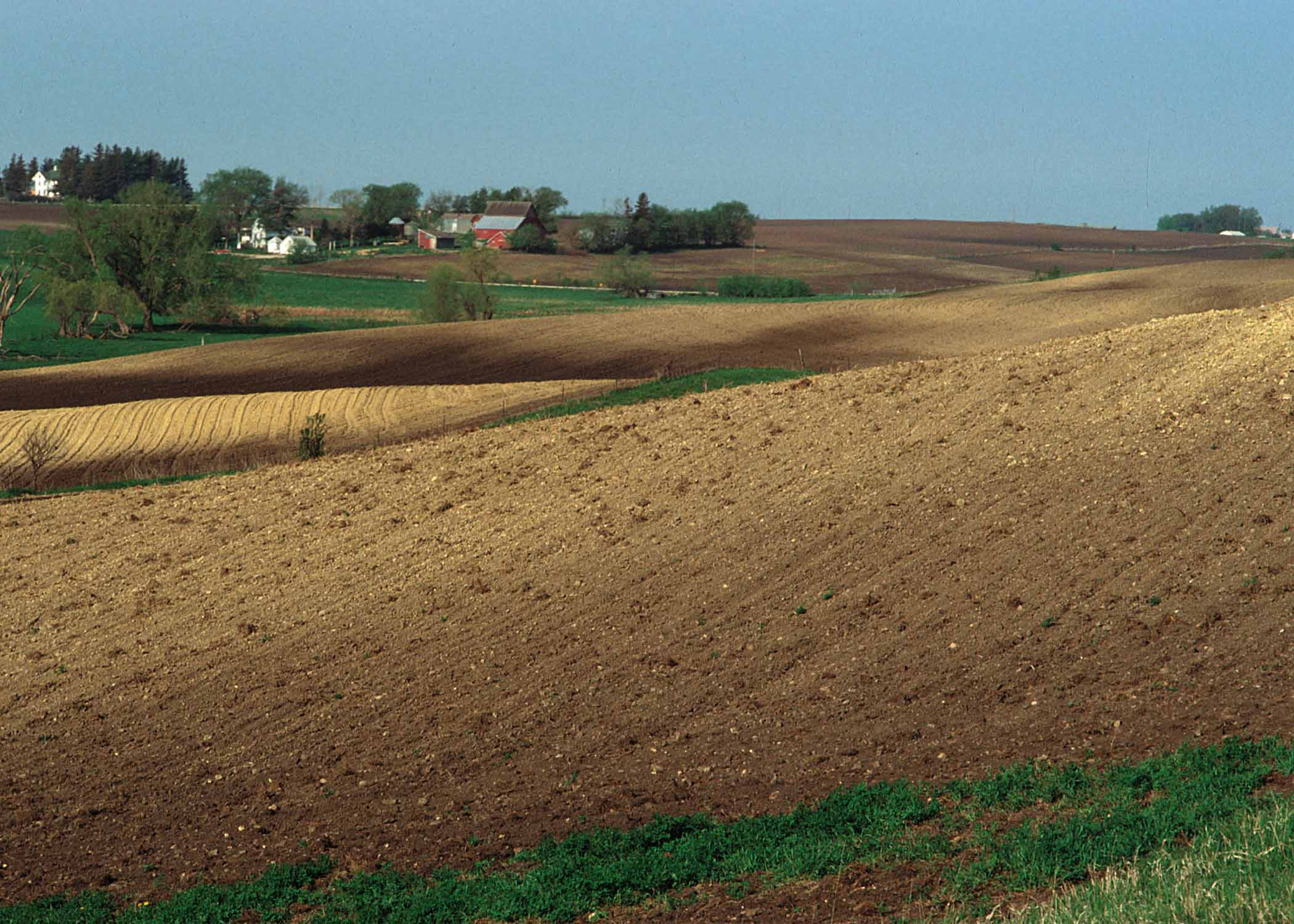 Iowa: Light colored soils in northeast Iowa have lost their topsoil. These soils are highly erodible and very steep.